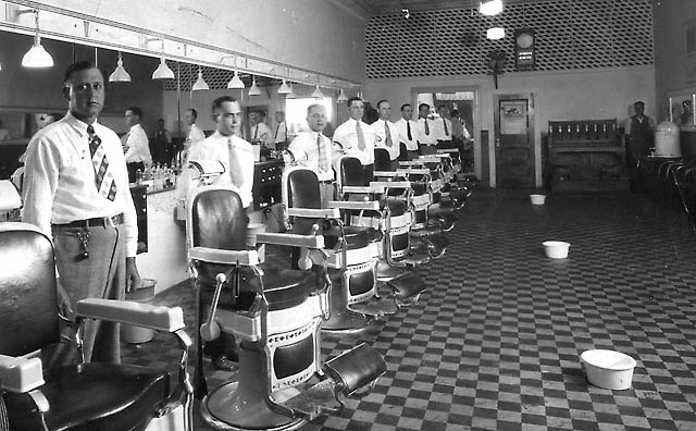 The staff of Draper's Barber Shop, Martinsville, Virginia. Round white items on the floor are spittoons.